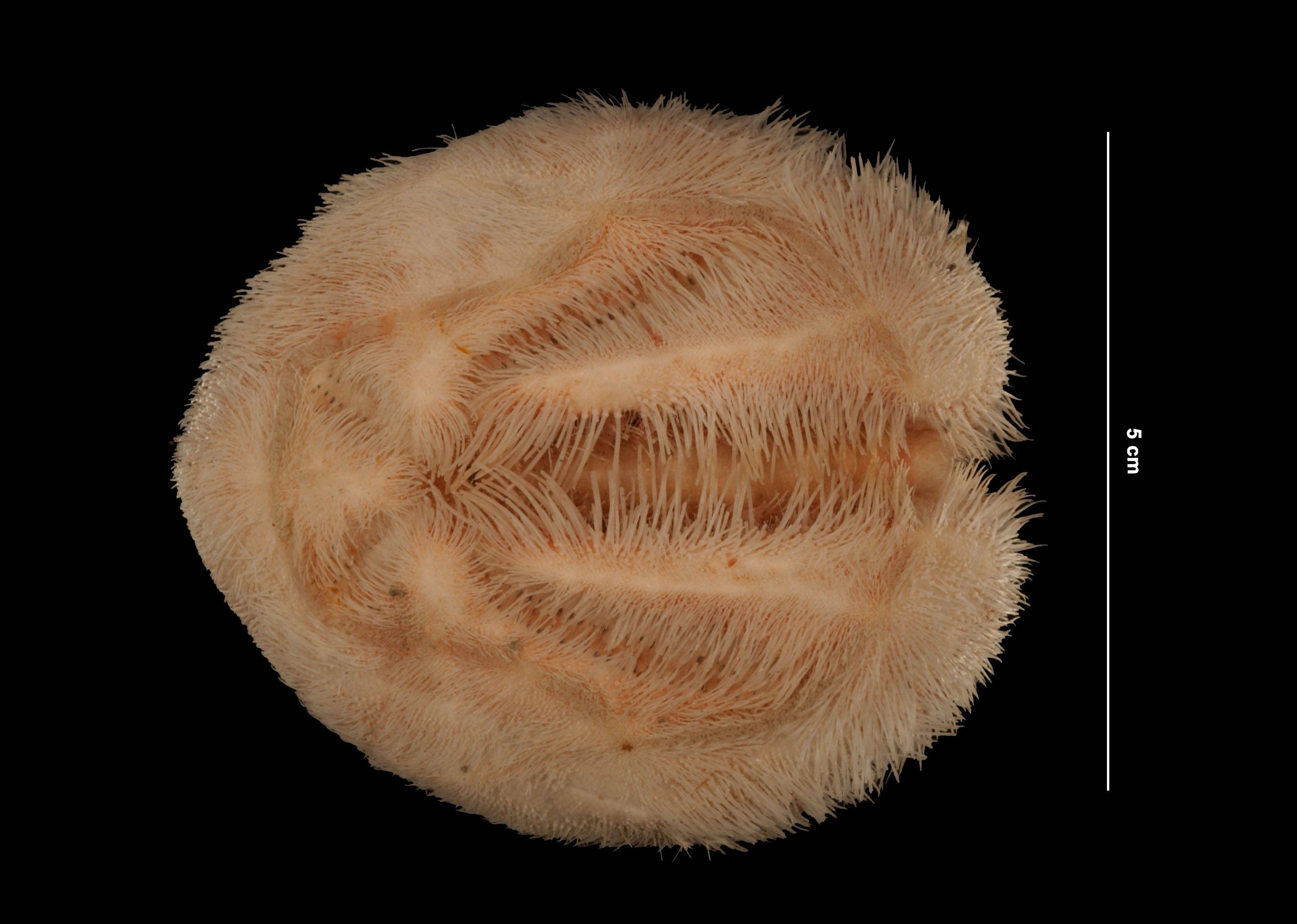 PRESERVED_SPECIMEN; Preparations: Alcohol (Ethanol); Schizaster orbignyanus A.Agassiz, 1880; Individual count: 1; Type status: (no data); Identified by: Swri; Event date: 19780821T00:00:00Z; Additional description: Schizaster orbignyanus Agassiz, 1880 (USNM E22233) oral view Scale: 5 cm